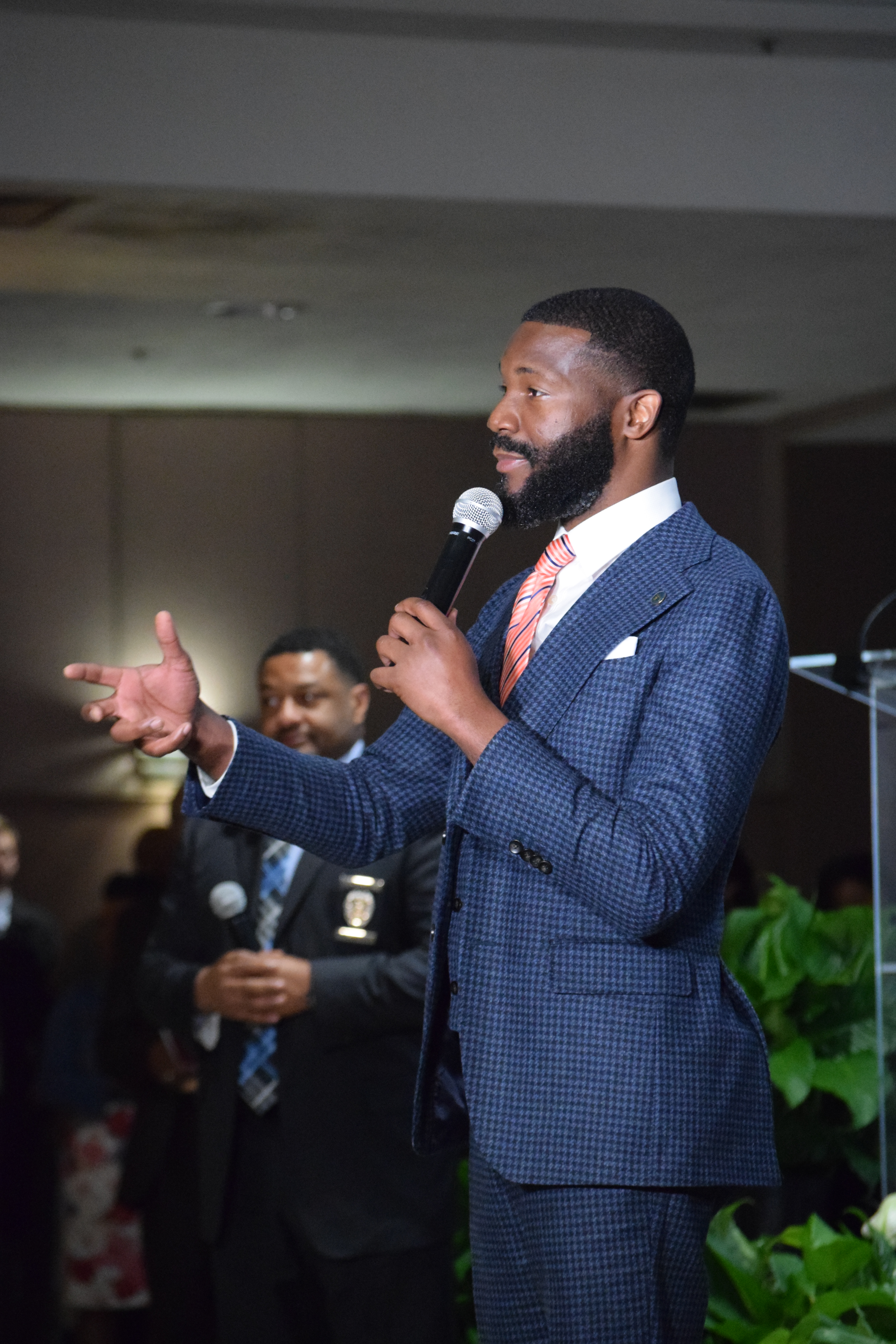 Randall Woodfin at a town hall meeting.